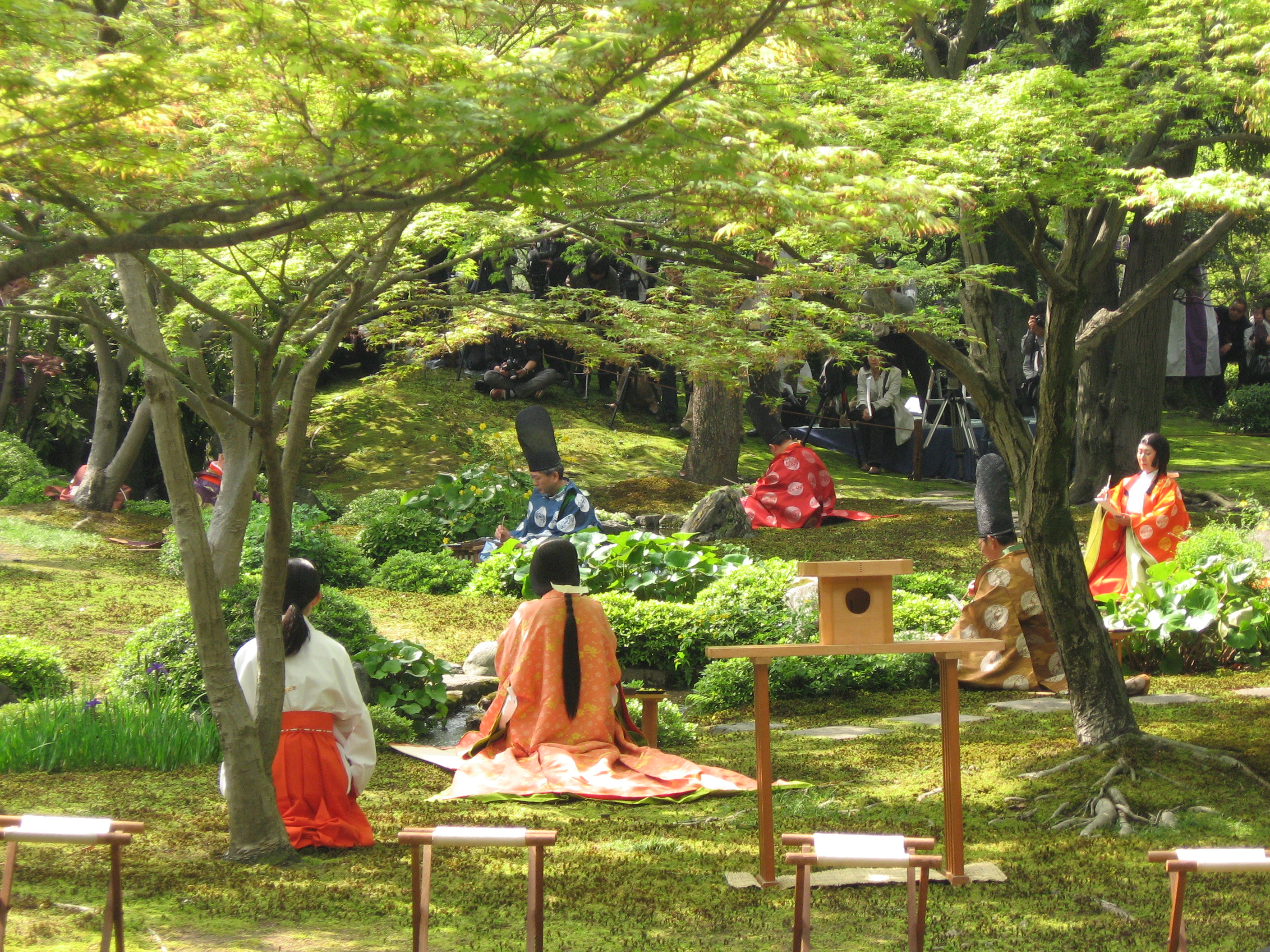 Kyokusui no utage held in Jonangu shrine in 29th Apr, 2011.